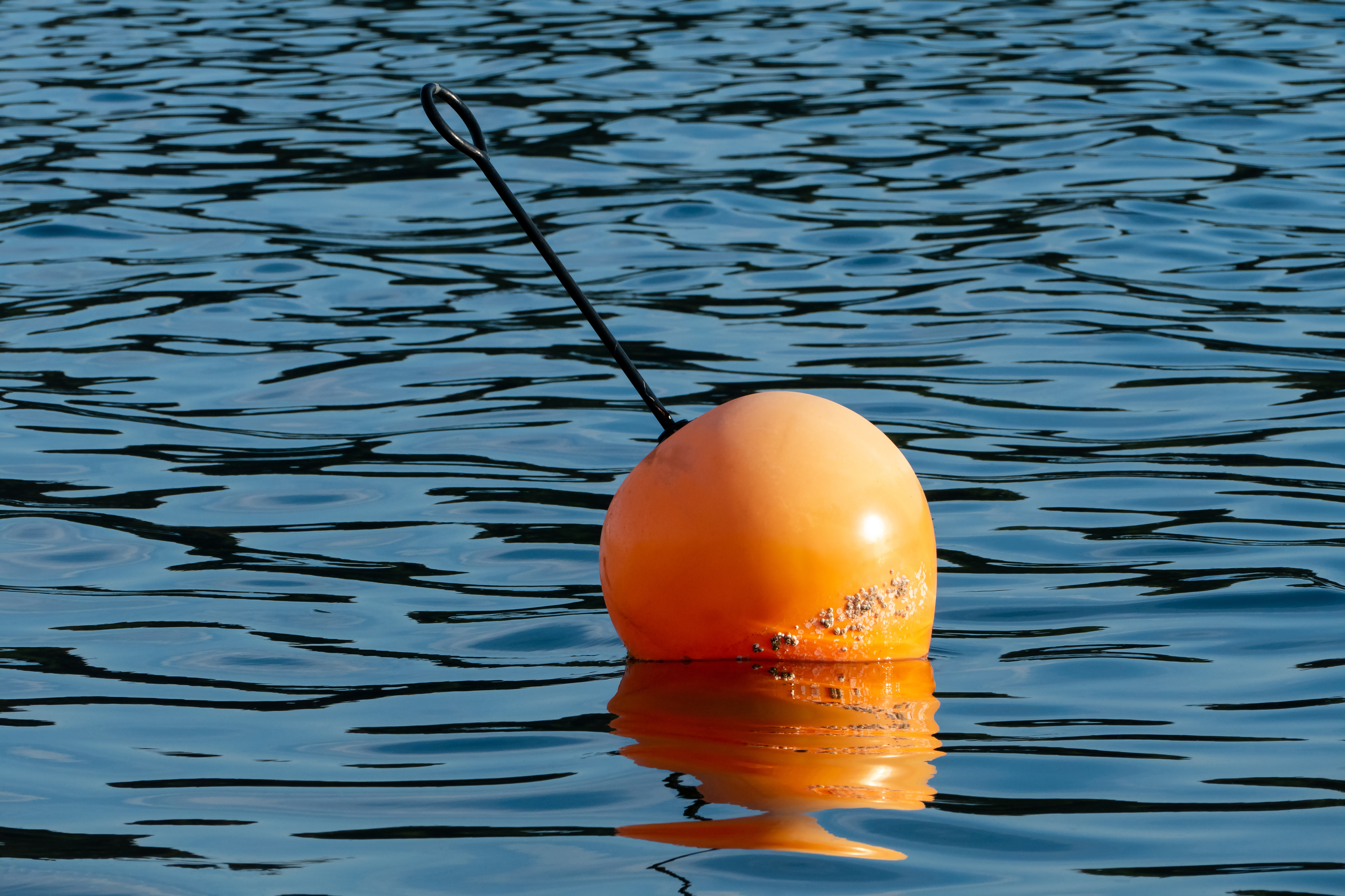 An orange mooring buoy in the water of Hanneviken, a part of Trommekilen and Brojorden, lit by the setting sun. Norrkila, Lysekil Municipality, Sweden.